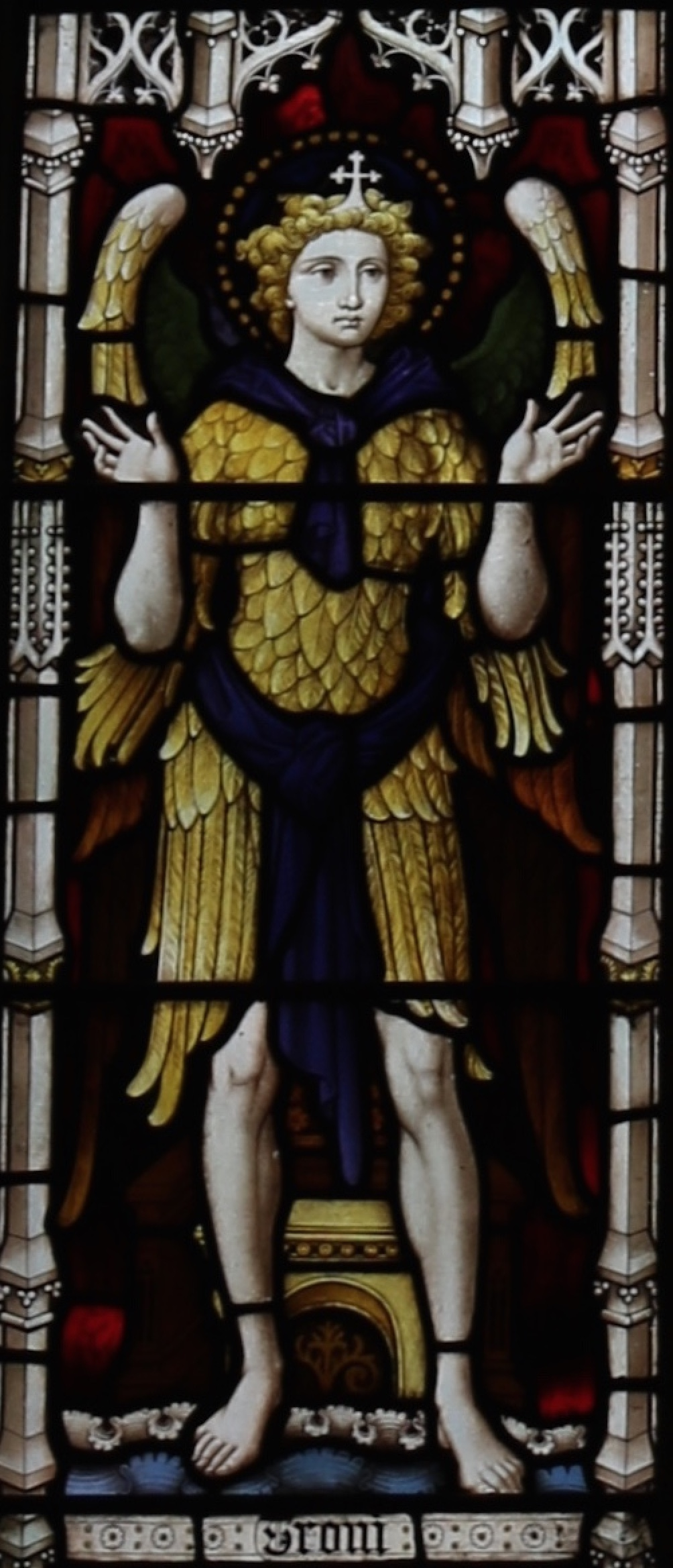 Angelic figure represents the Thrones, west window of the Church of St Michael and All Angels, Somerton, Somerset, England.